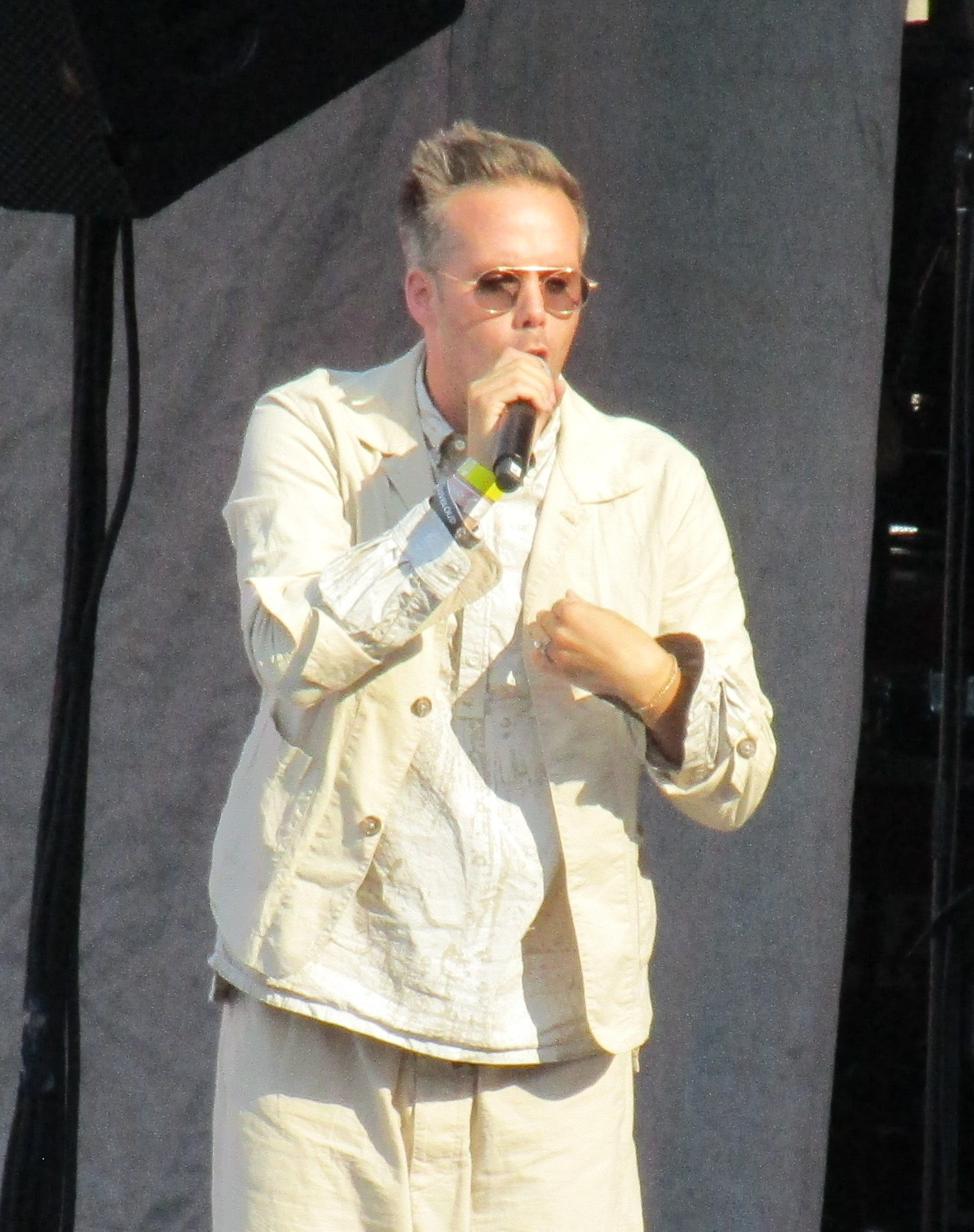 Justin Tranter speaking at LoveLoud 2018.